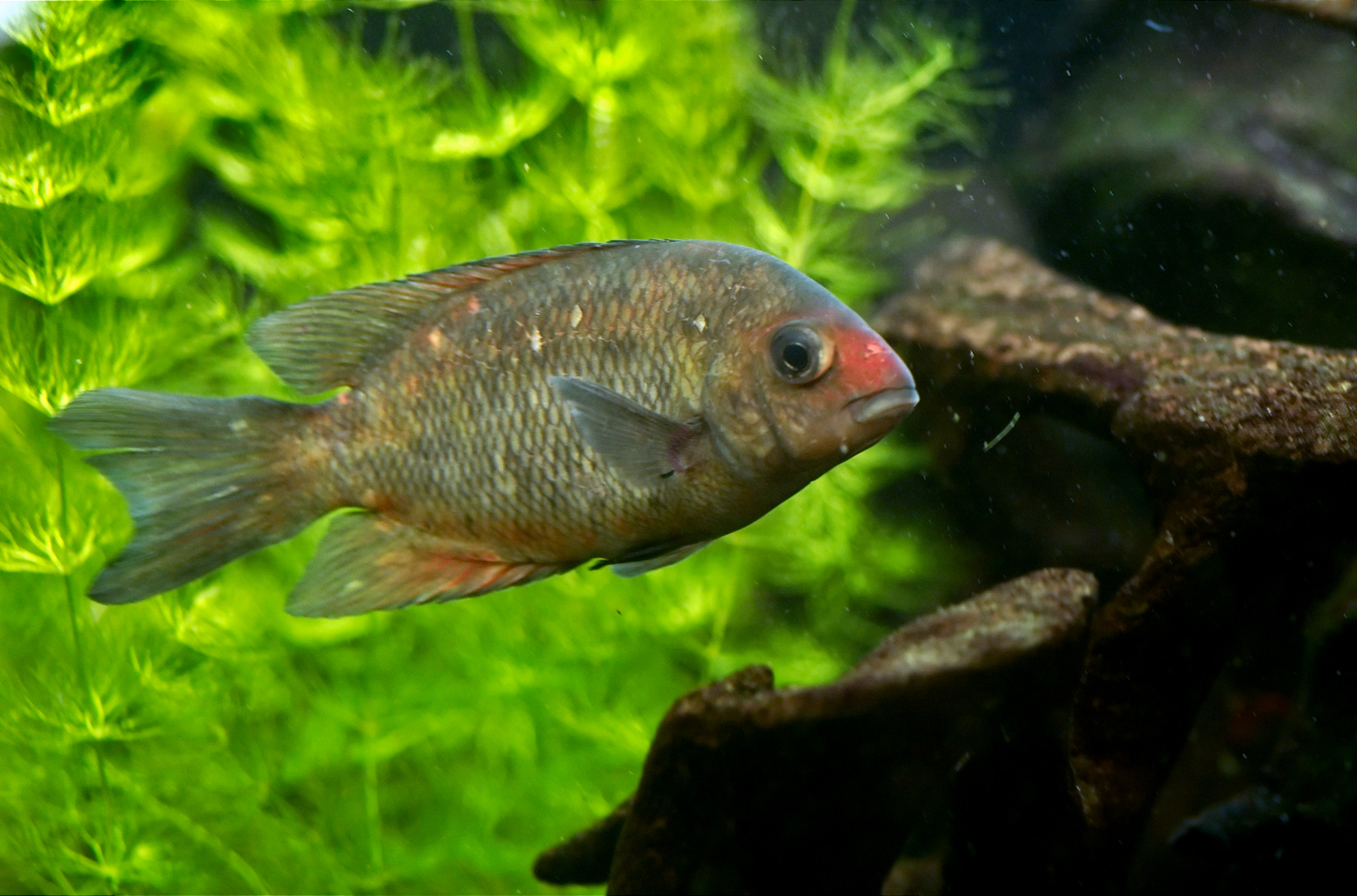 Kotsovato